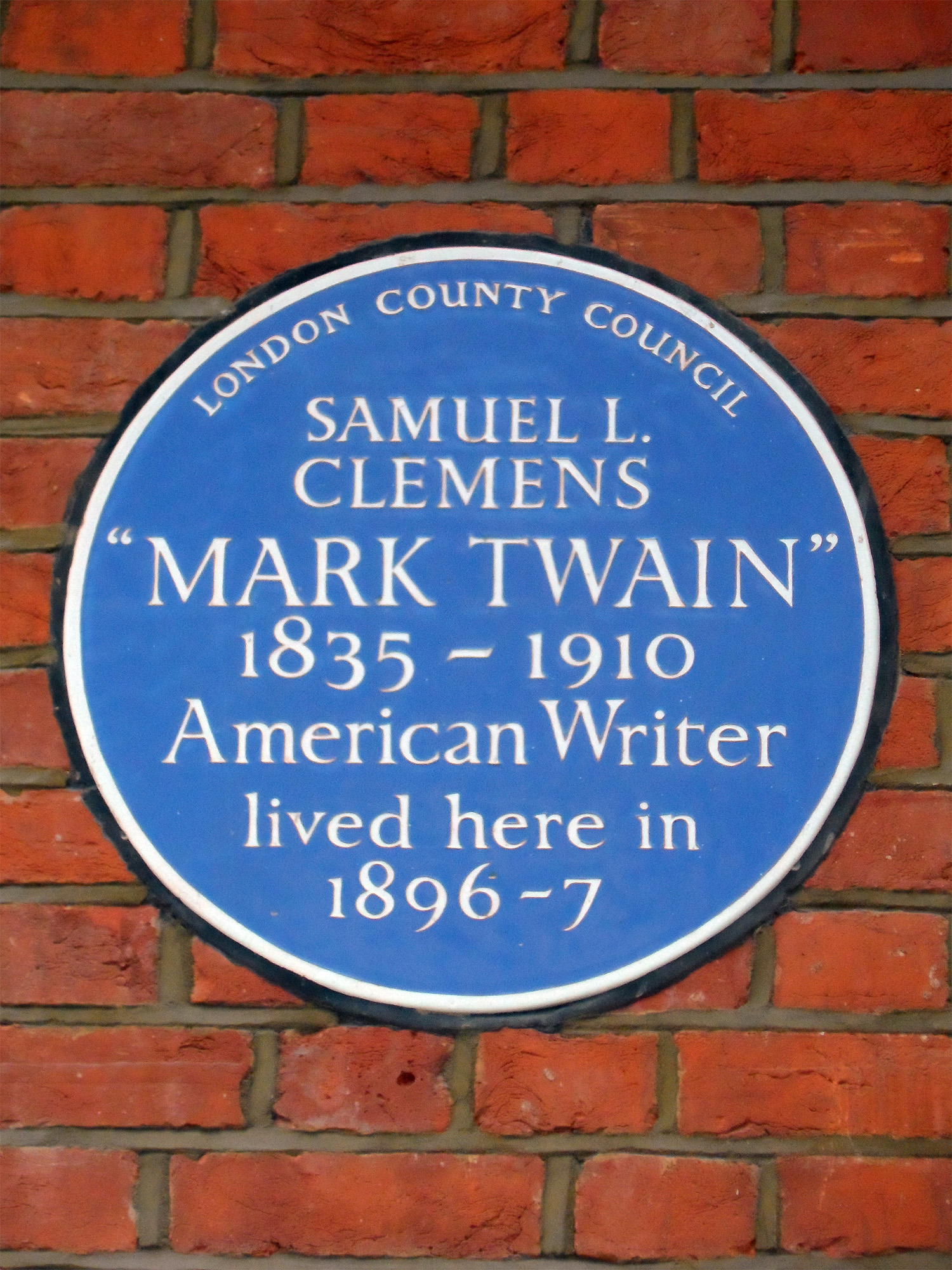 Blue plaque erected in 1960 by London County Council at 23 Tedworth Square, Chelsea, London SW3 5DR, Royal Borough of Kensington and Chelsea